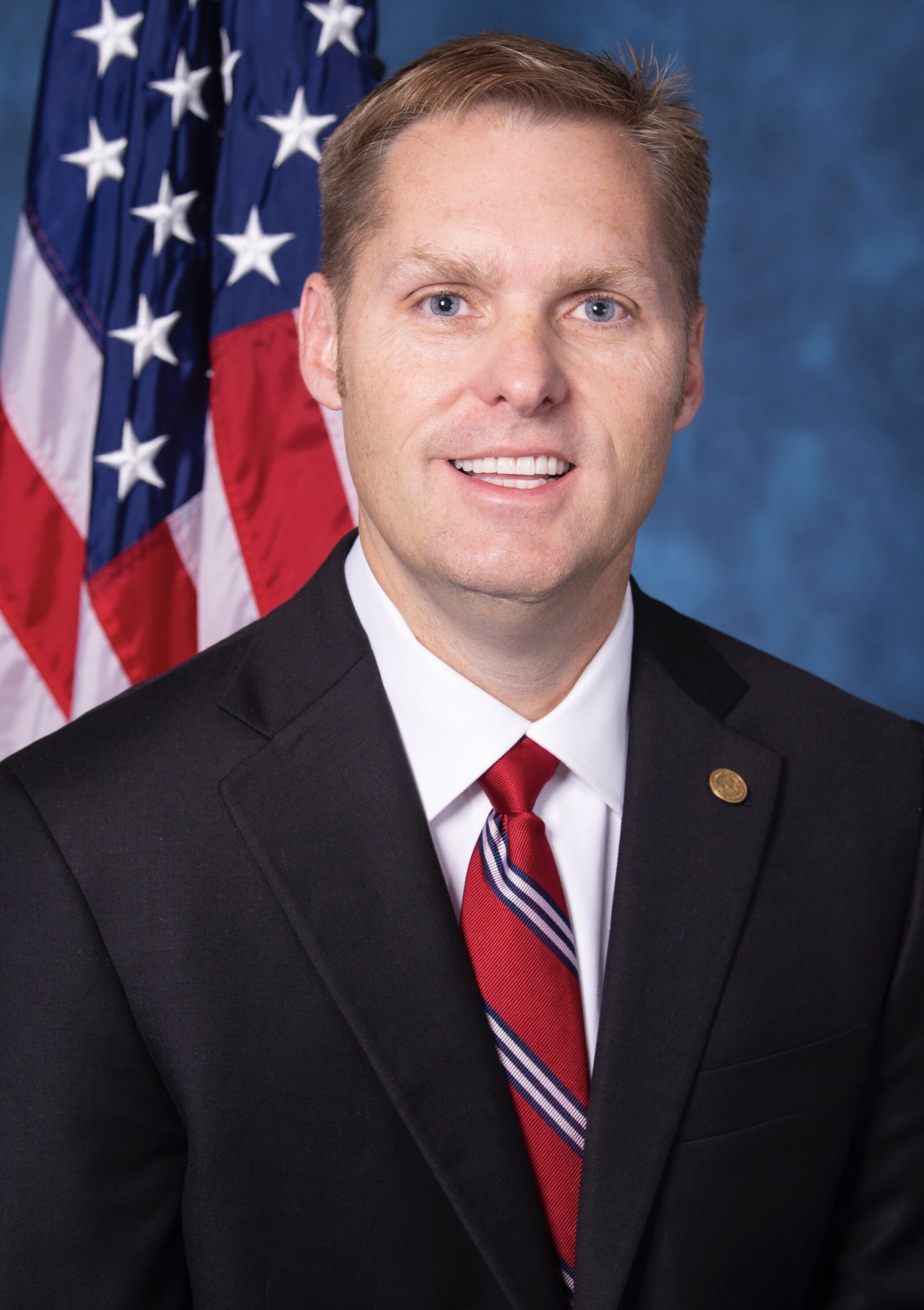 The official headshot of Rep. Michael Guest (R-MS)